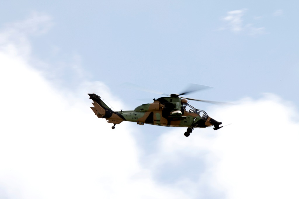 An Australian Army Tiger armed reconnaissance helicopter flies over Lavarock Barracks near Townsville, Australia Oct. 3, 2010. U.S. Marines with Alpha Company, 1st Battalion, 3rd Marine Regiment deployed to Australia for bilateral exchange Exercise Golden Eagle to enhance U.S. and Australian interoperability and military-to-military relationships.